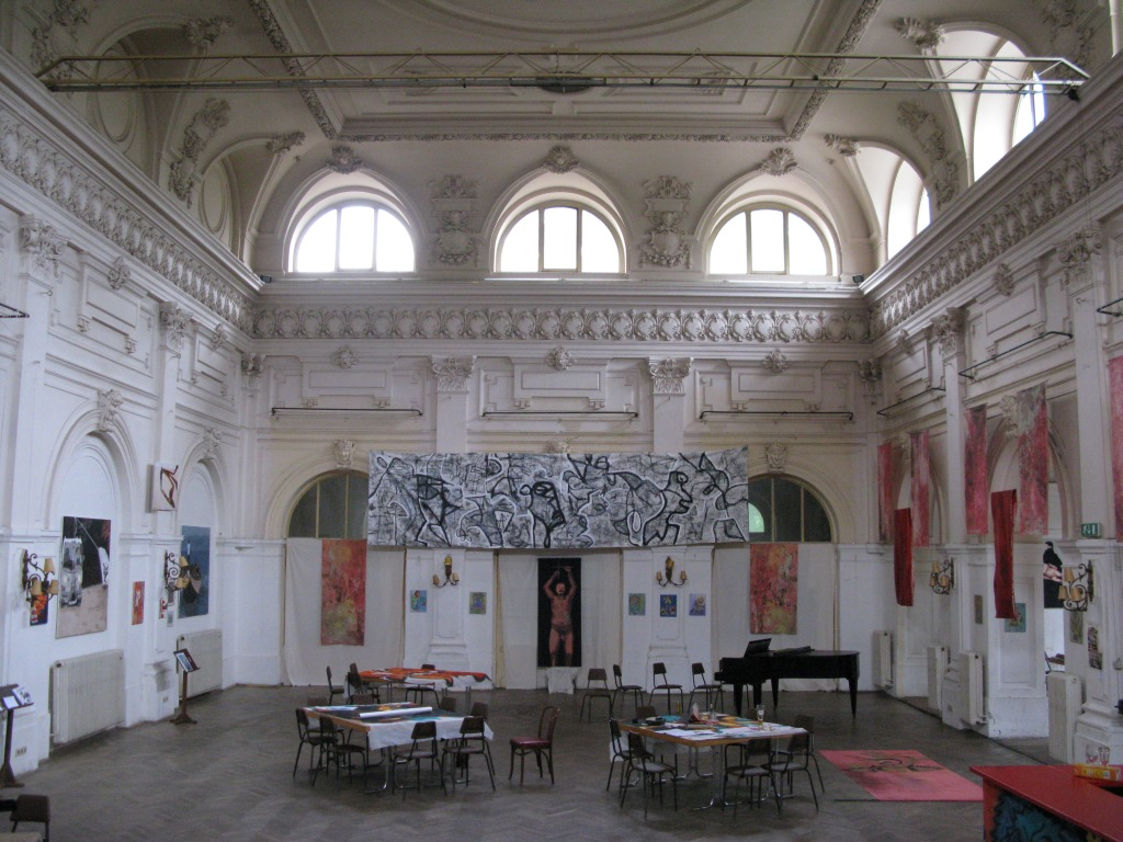 Casino Baumgarten - Ballroom